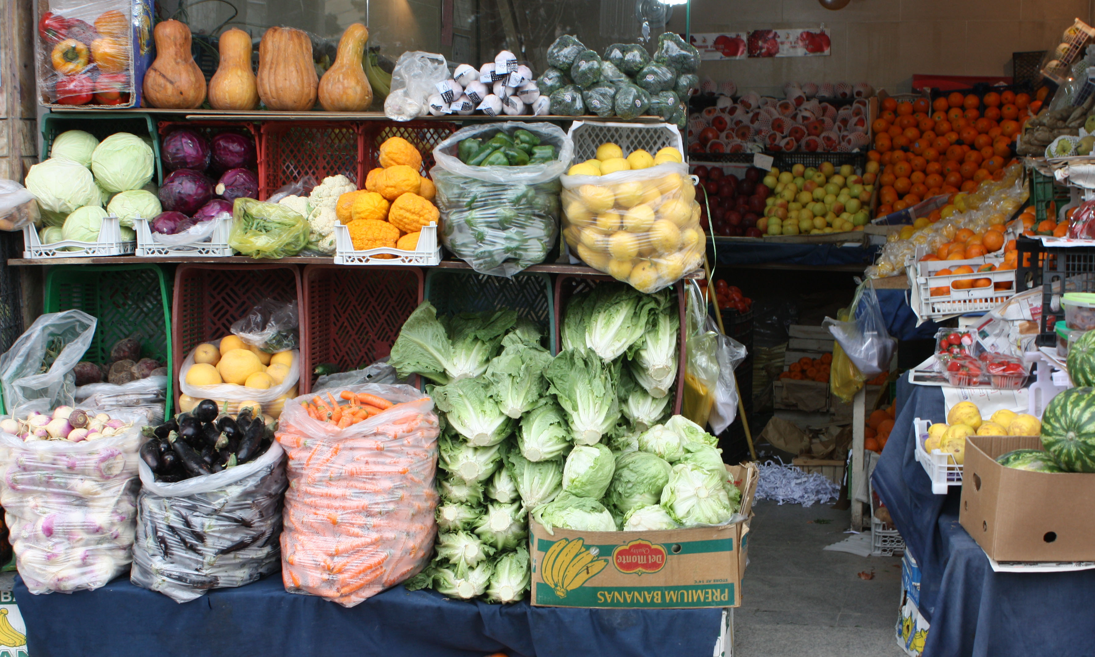 Greengrocer in Tehran